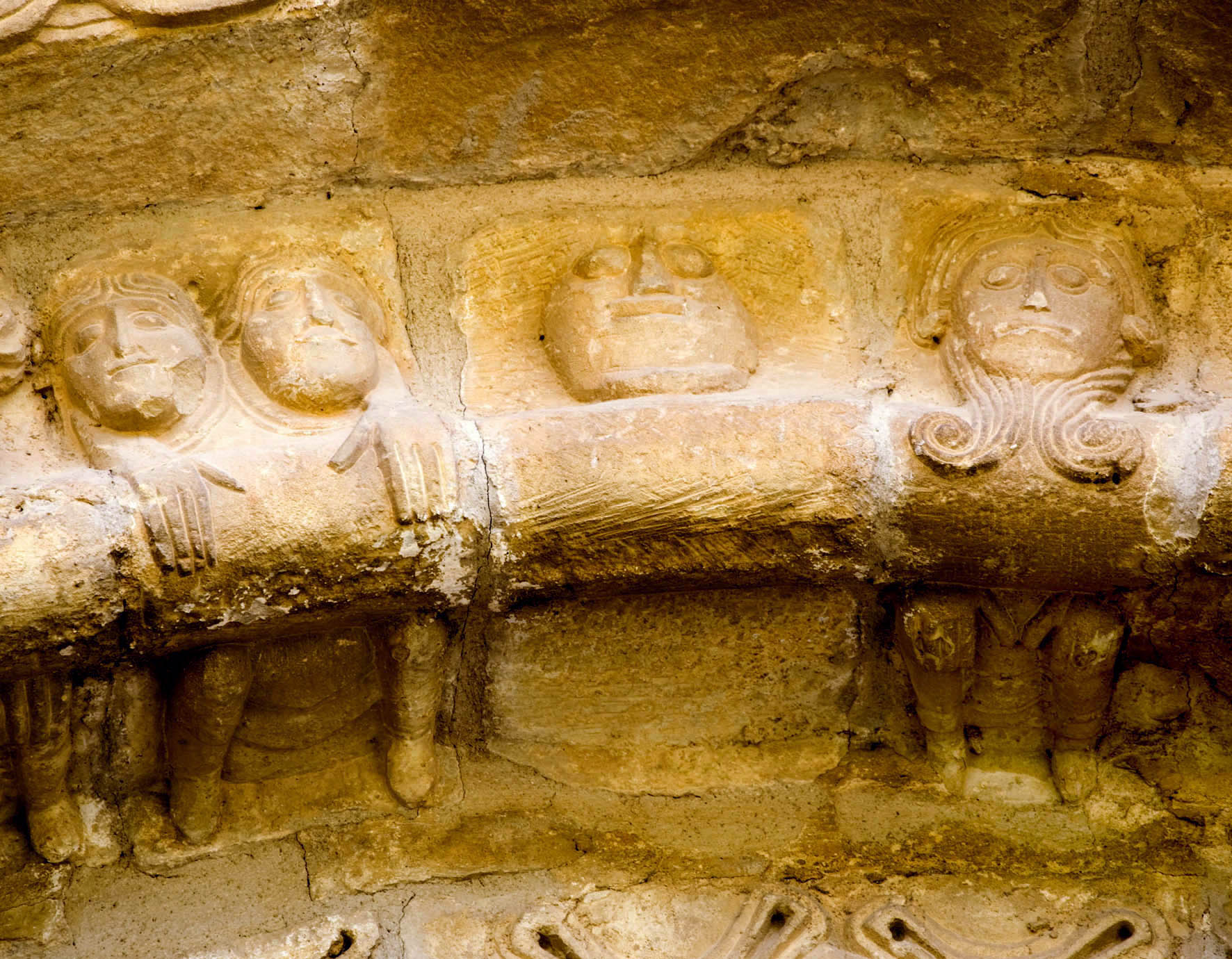 Central segments of the north doorway of the church of San Pedro de Etxano - Olóriz, Valdorba, Navarra